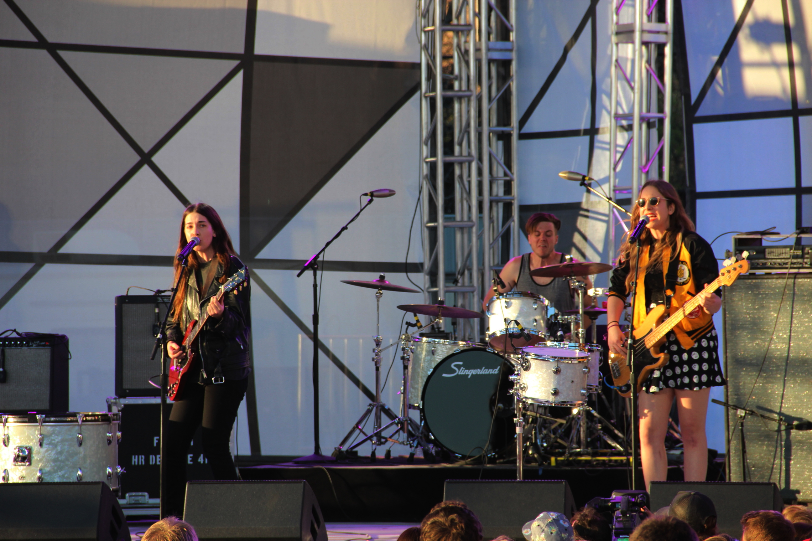 Haim perform at the MTV Woodie awards stage at the South by Southwest music festival in Austin, Texas, March 14, 2013.